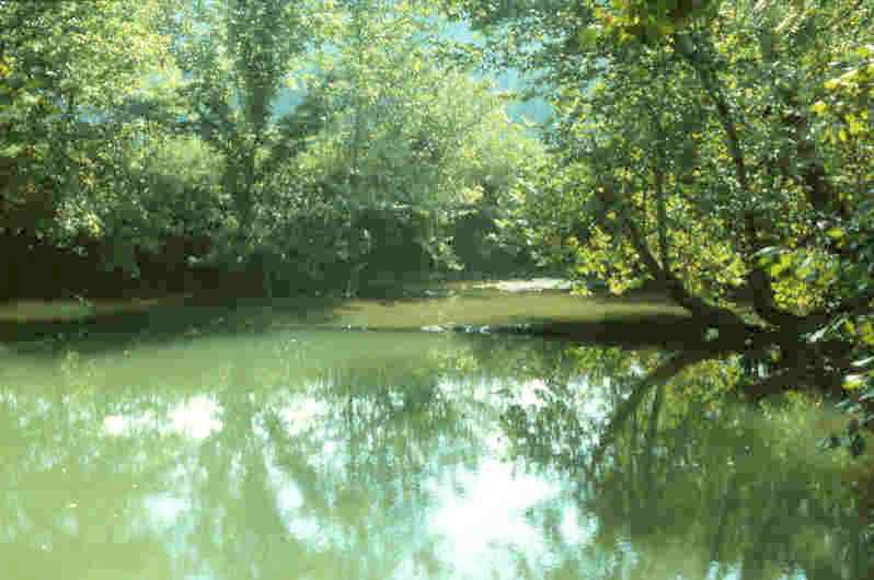 Image of Harrison Spring in Harrison County, Indiana